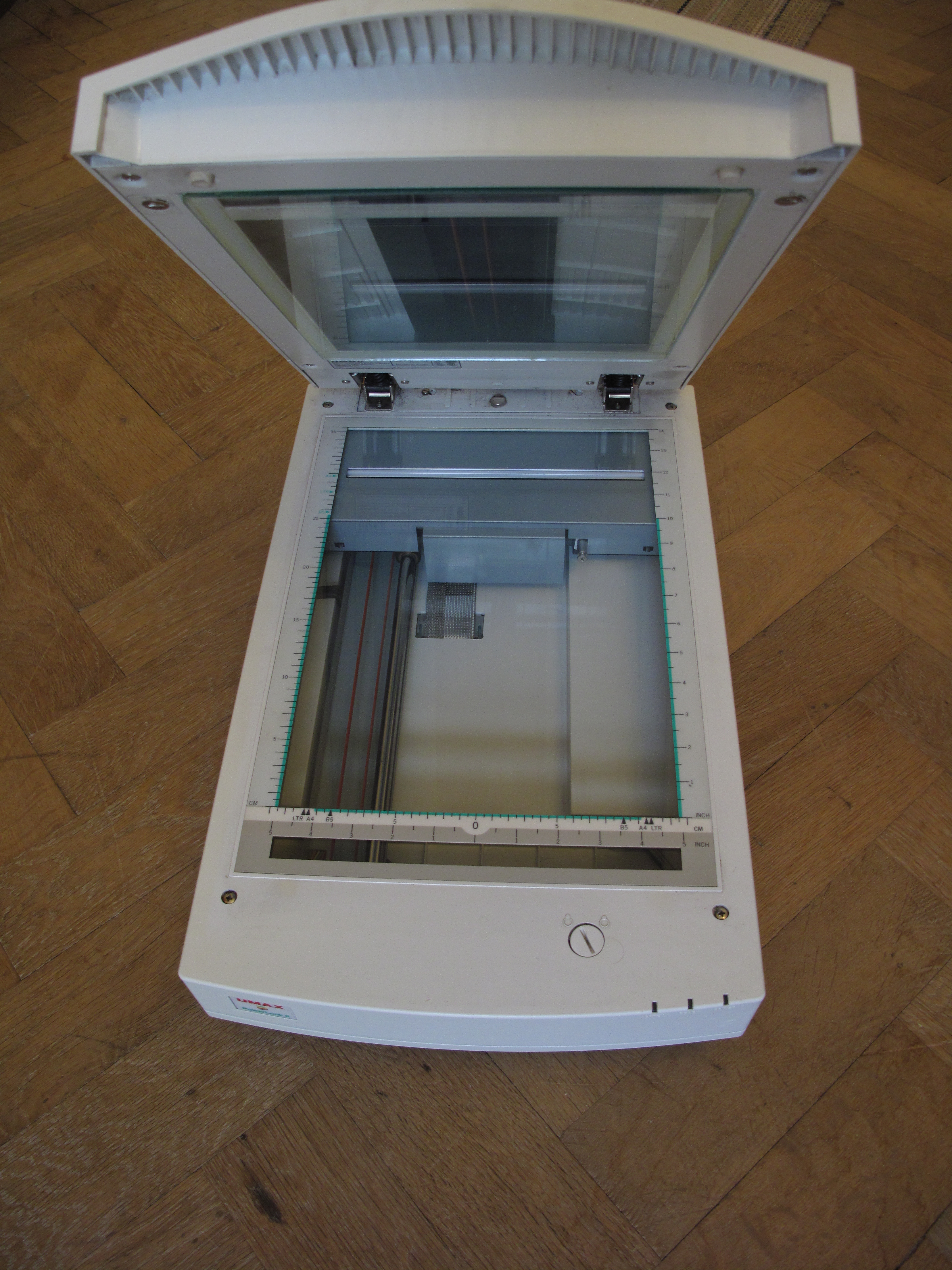 Open scanner UMAX PowerLook II.